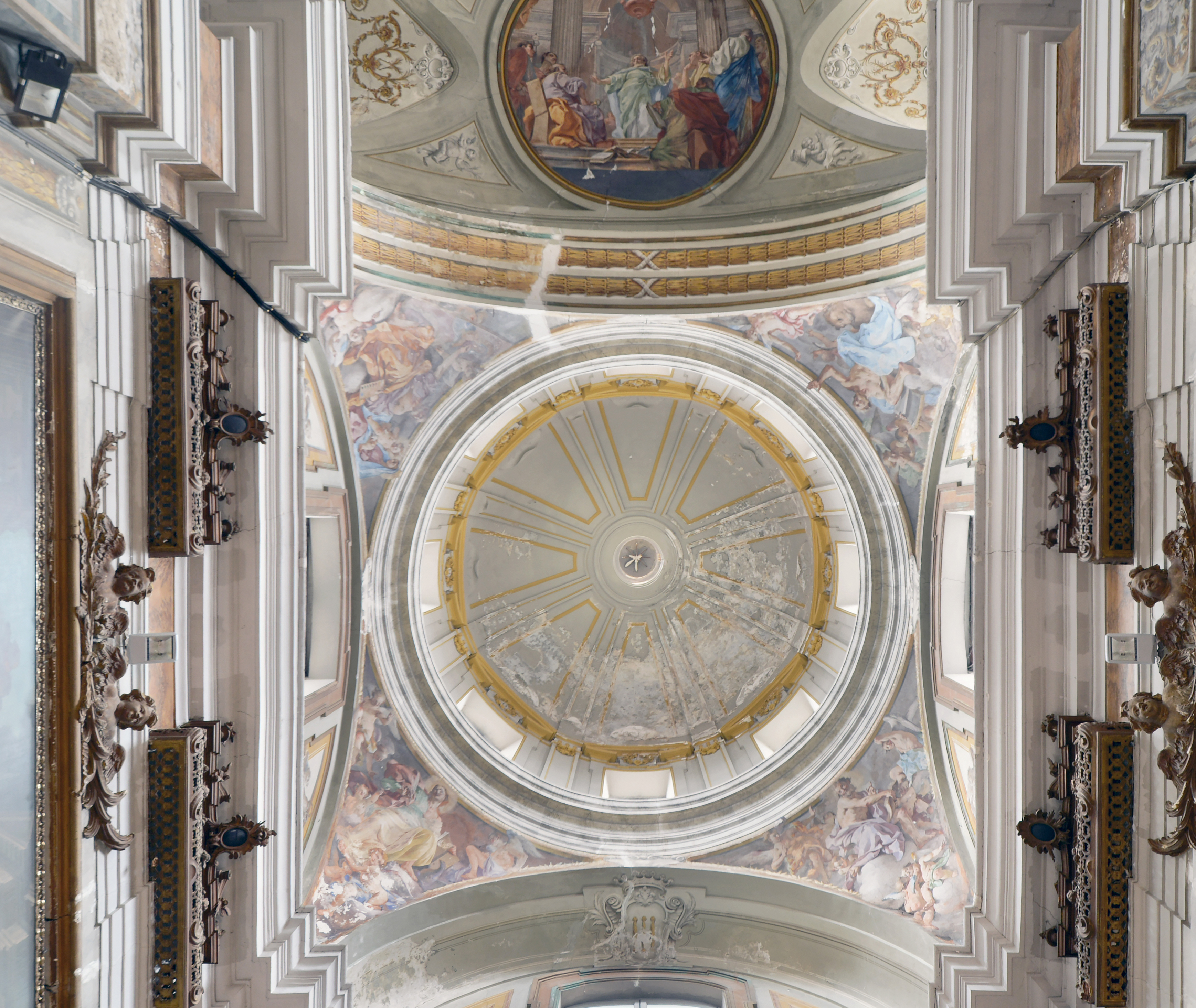 Santi Filippo e Giacomo (Naples) - Dome